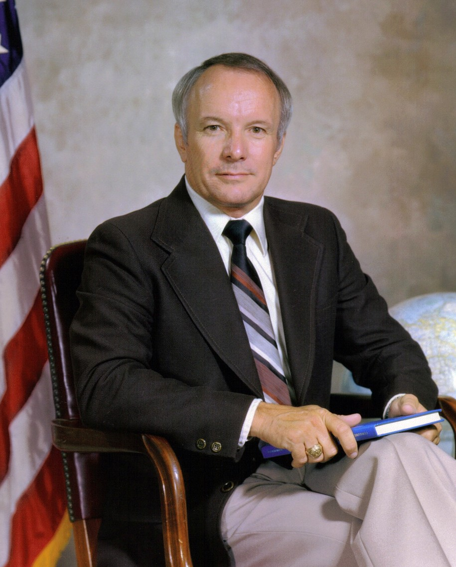 Gerald Griffin, former Apollo flight director and former Johnson Space Center director